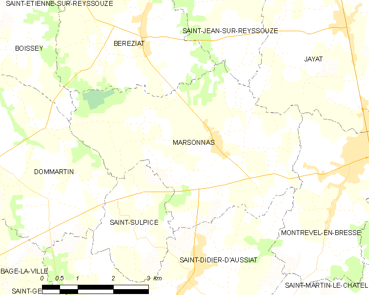 Map of French commune: Marsonnas Map commune FR insee code 01236.png